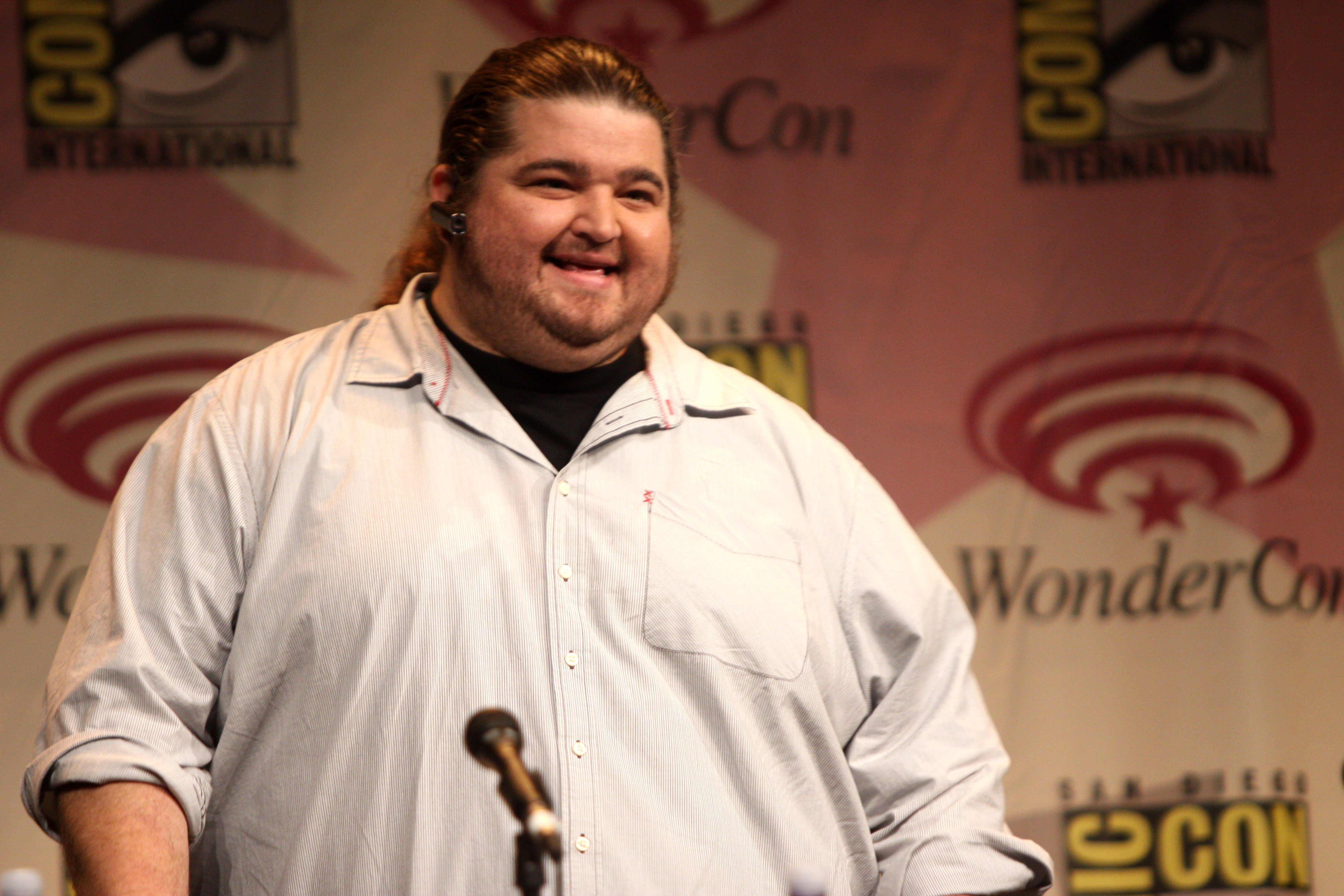 Jorge Garcia speaking at the 2012 WonderCon in Anaheim, California.